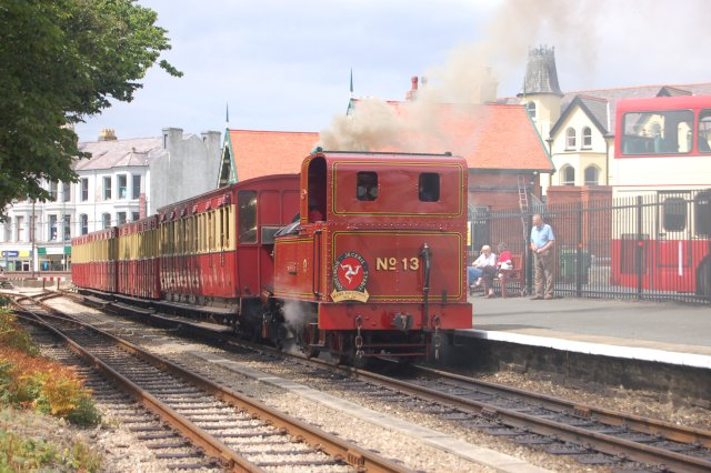 Port Erin Station The station at Port Erin. Engine no 13 Kissack waits to leave for Douglas